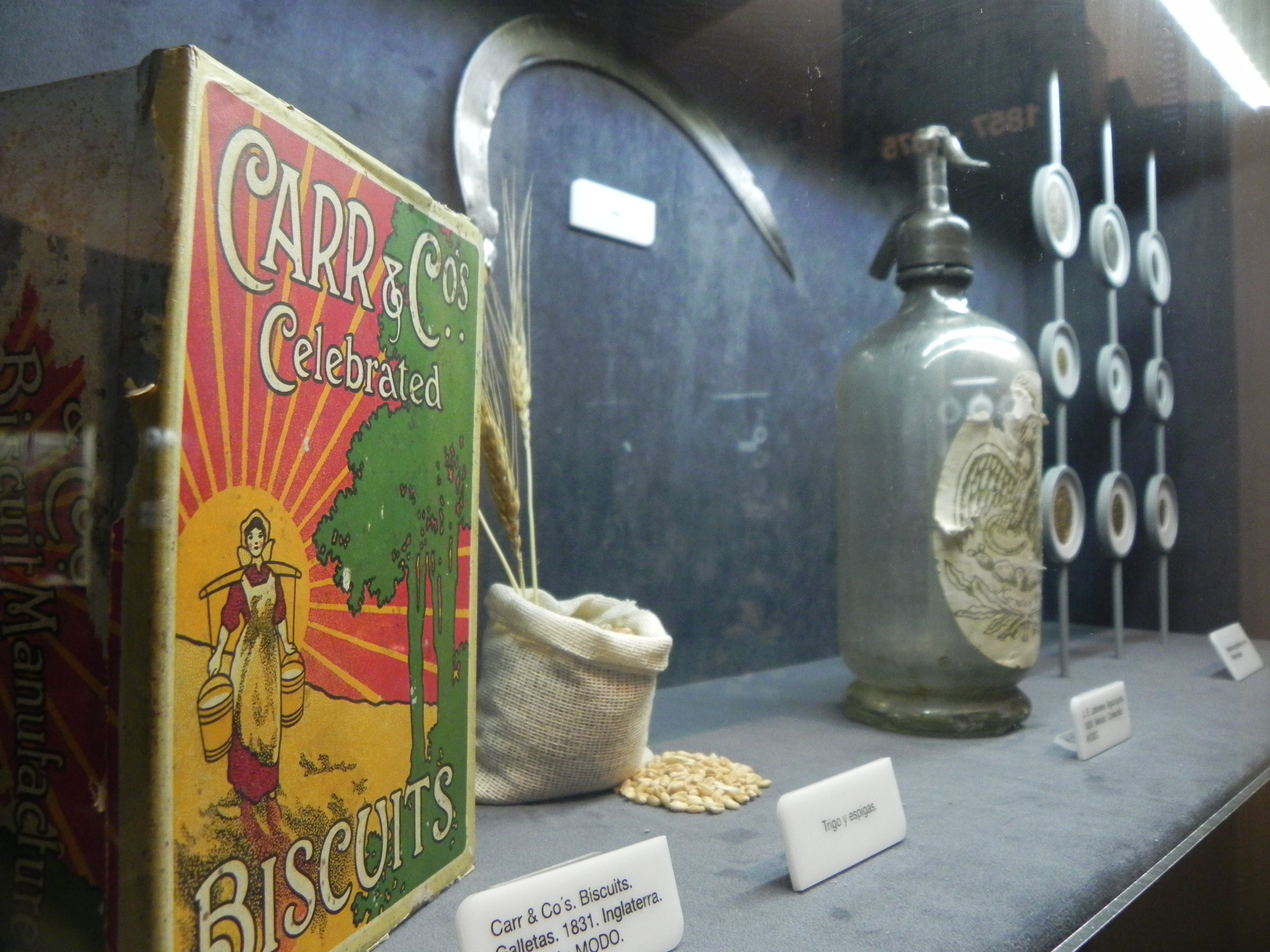 Comon objects in Mexico in the year 1800's